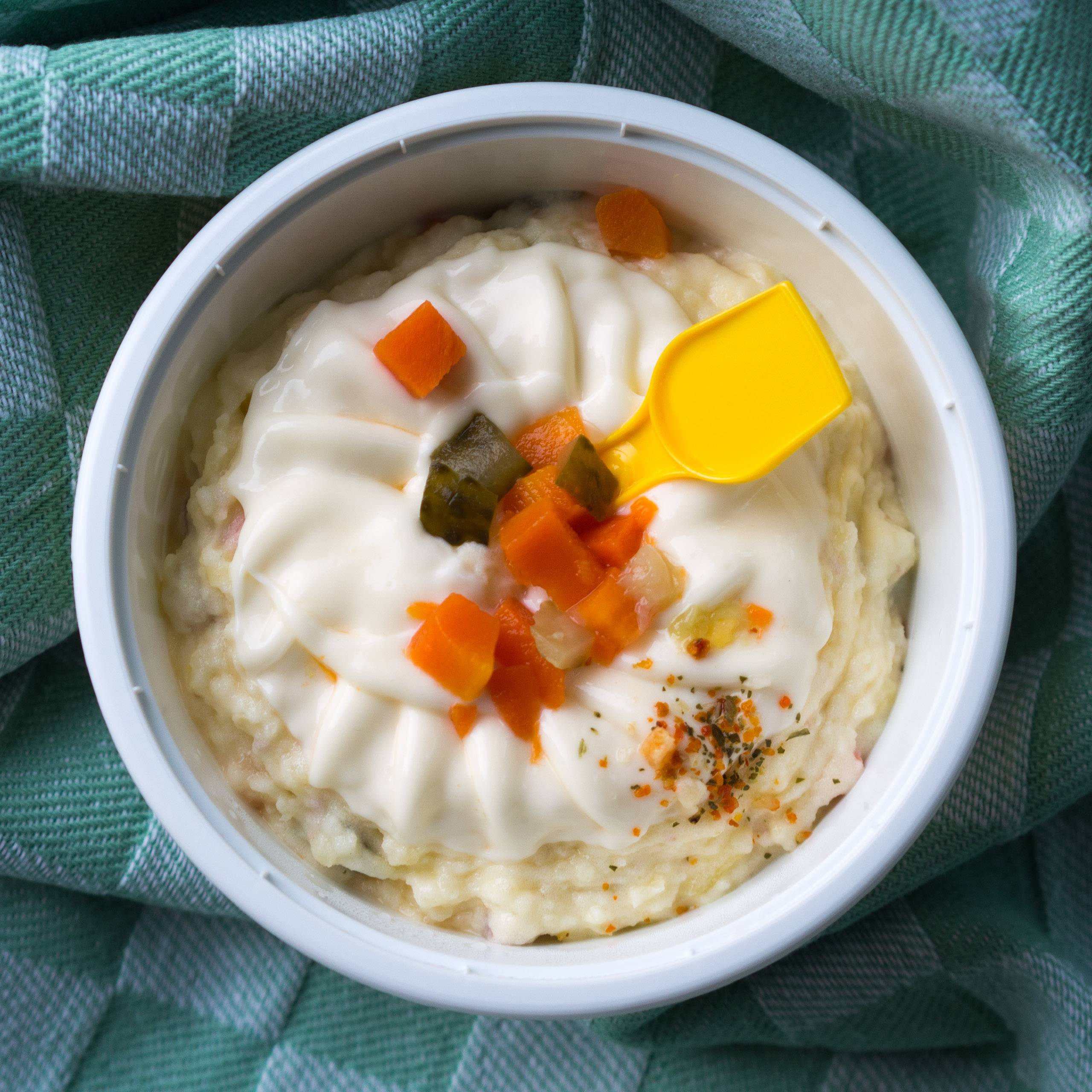 A commercially made huzarenslaatje. The word is the diminutive form of huzarensalade, Dutch for "Hussars' salad". It is a Dutch potato salad with shredded beef, onion, apple, and gherkins, and mayonnaise as a condiment. In this case also a few pieces of pickled carrot are included. This, being a commercial variant from a Dutch supermarket, also contains a variety of preservatives and taste enhancers. In the Netherlands it is often sold in small, shallow, plastic cups with a plastic, see-through lid, as a quick snack as was the case here; the tiny spoon was included. The cup in this image is approximately 10 cm in diameter.